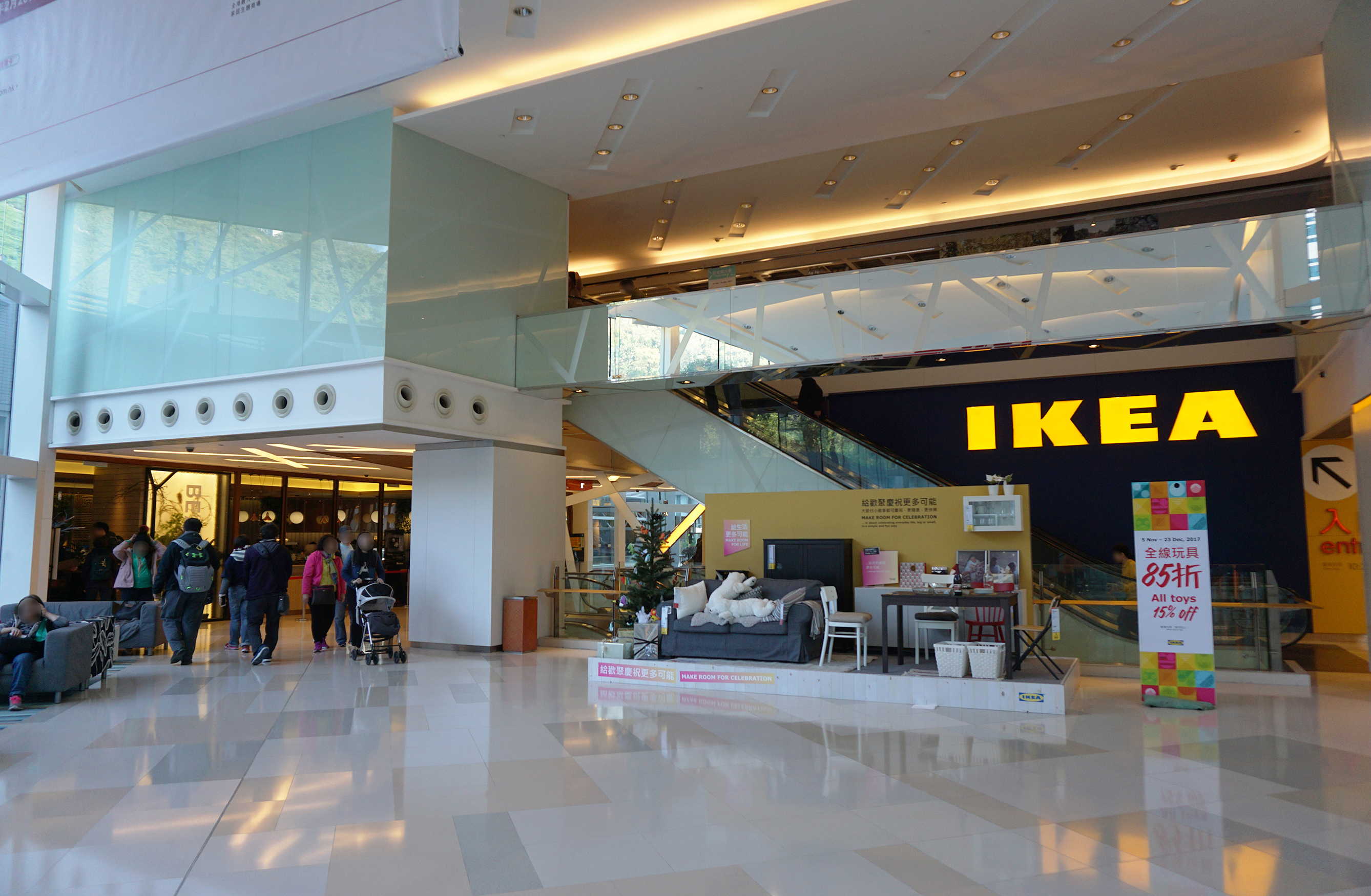 HomeSquare in Shatin, Hong Kong.